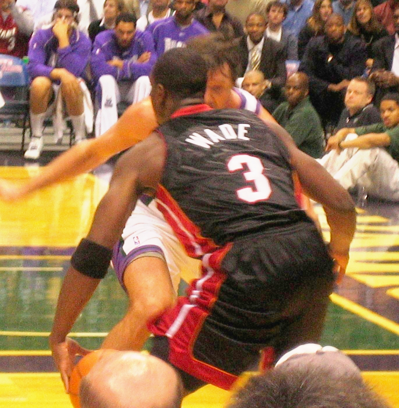 Dwyane Wade of the Miami Heat (in black) dribbles the ball against Toni Kukoc of the Milwaukee Bucks in a 2005 game.